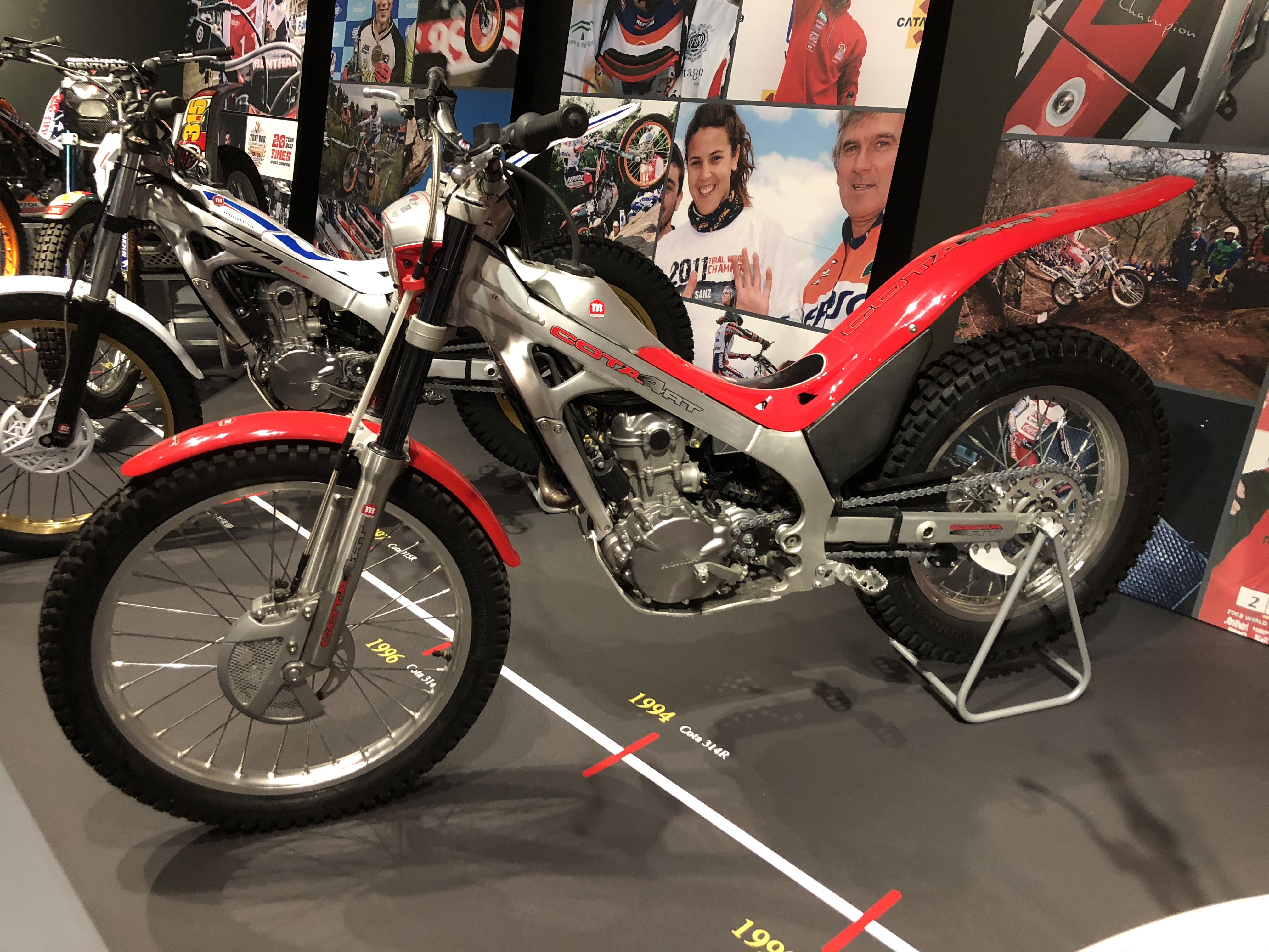 Montesa Cota 4RT 2005 249cc